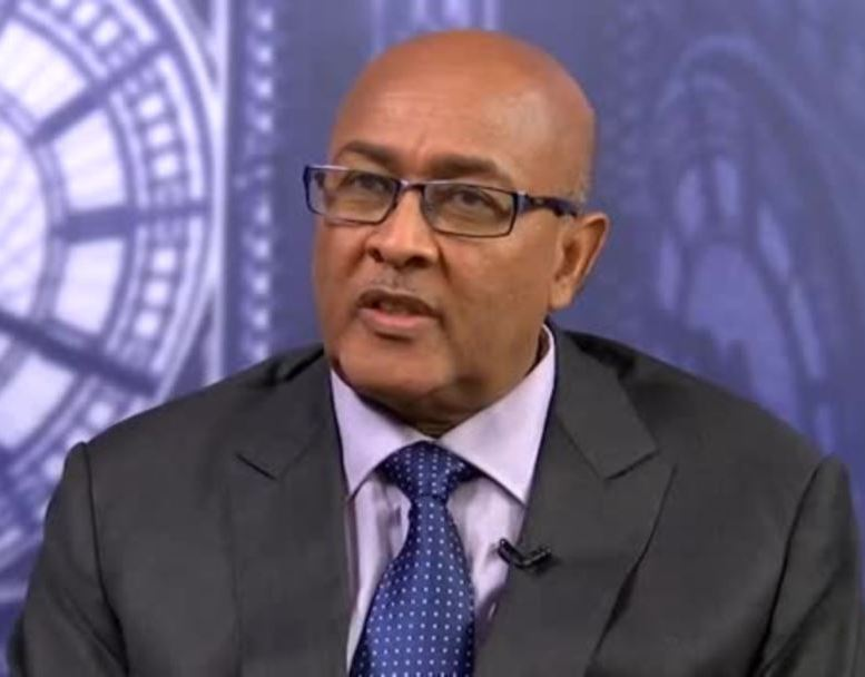 Abdirahman Mohamed Abdullahi Cirro, Chairman of Wadani Party